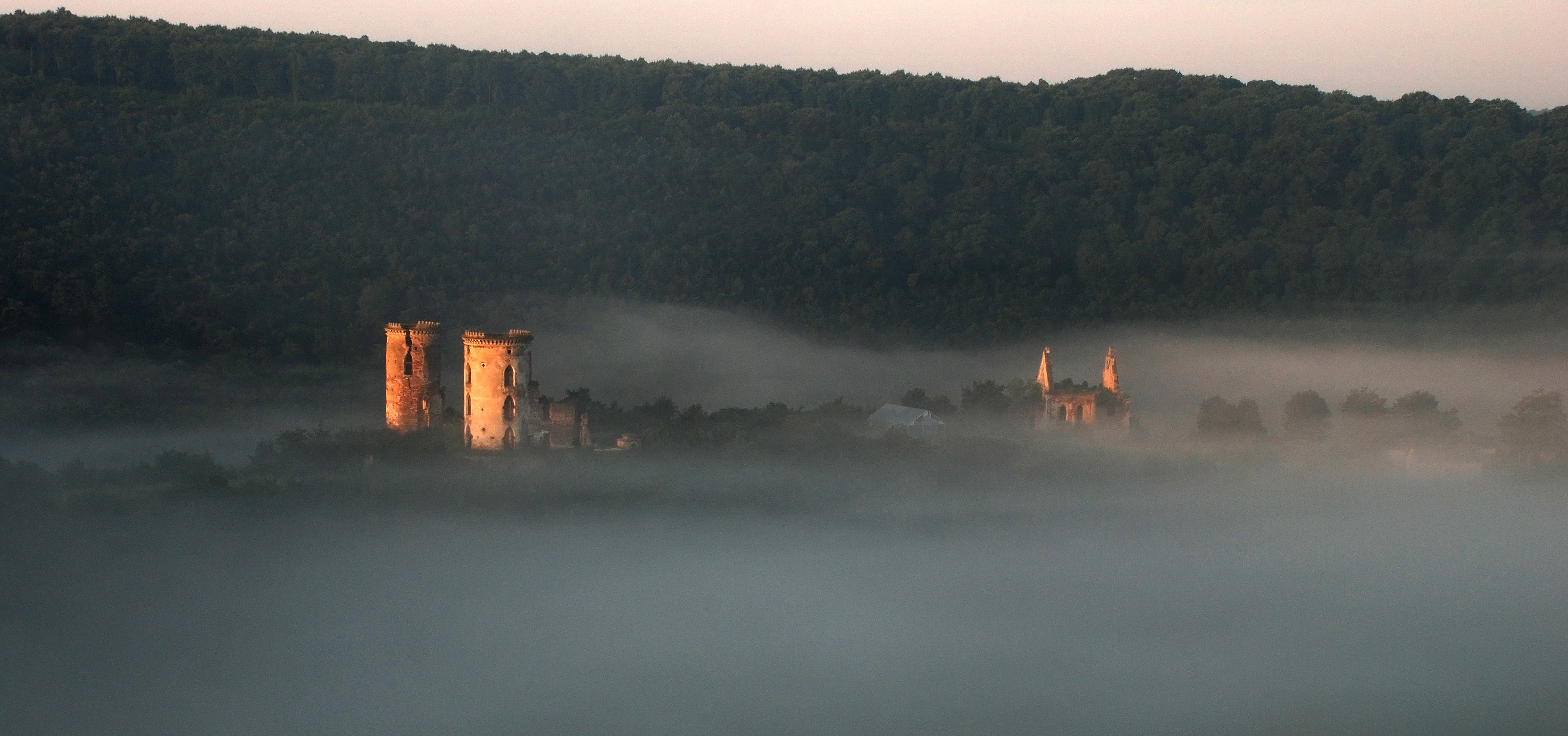 Ruins of the palace (architectural monument of local significance), Ternopil Oblast, the Nyrkiv village.